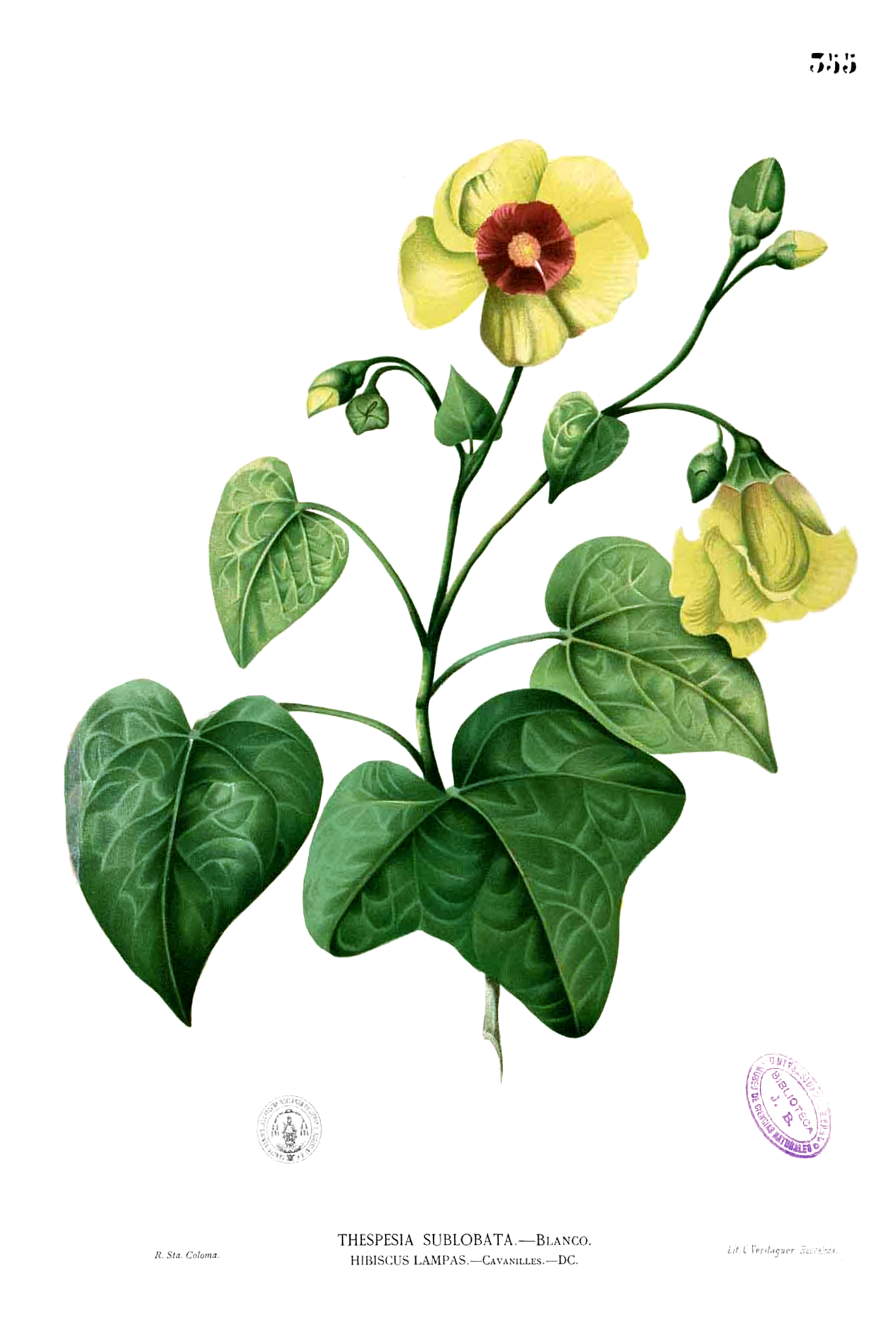 Plate from book